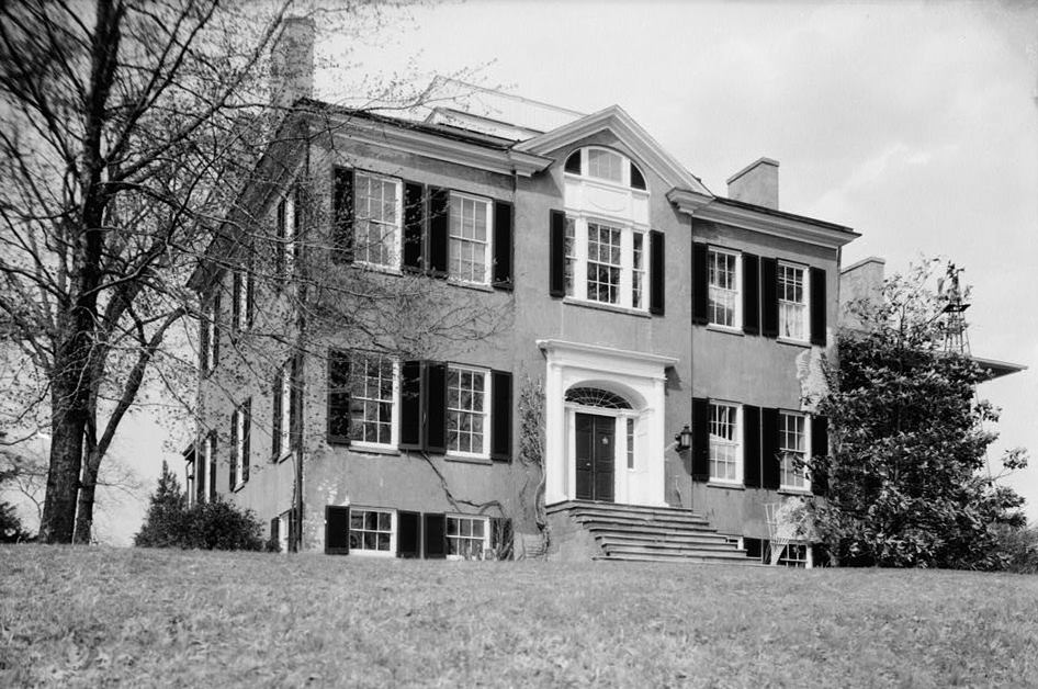 Bowieville: Historic American Buildings Survey John O. Brostrup, Photographer April 21, 1936 2:40 P. M. VIEW FROM SOUTHWEST (front) HABS MD,17-LELD.V,1-2